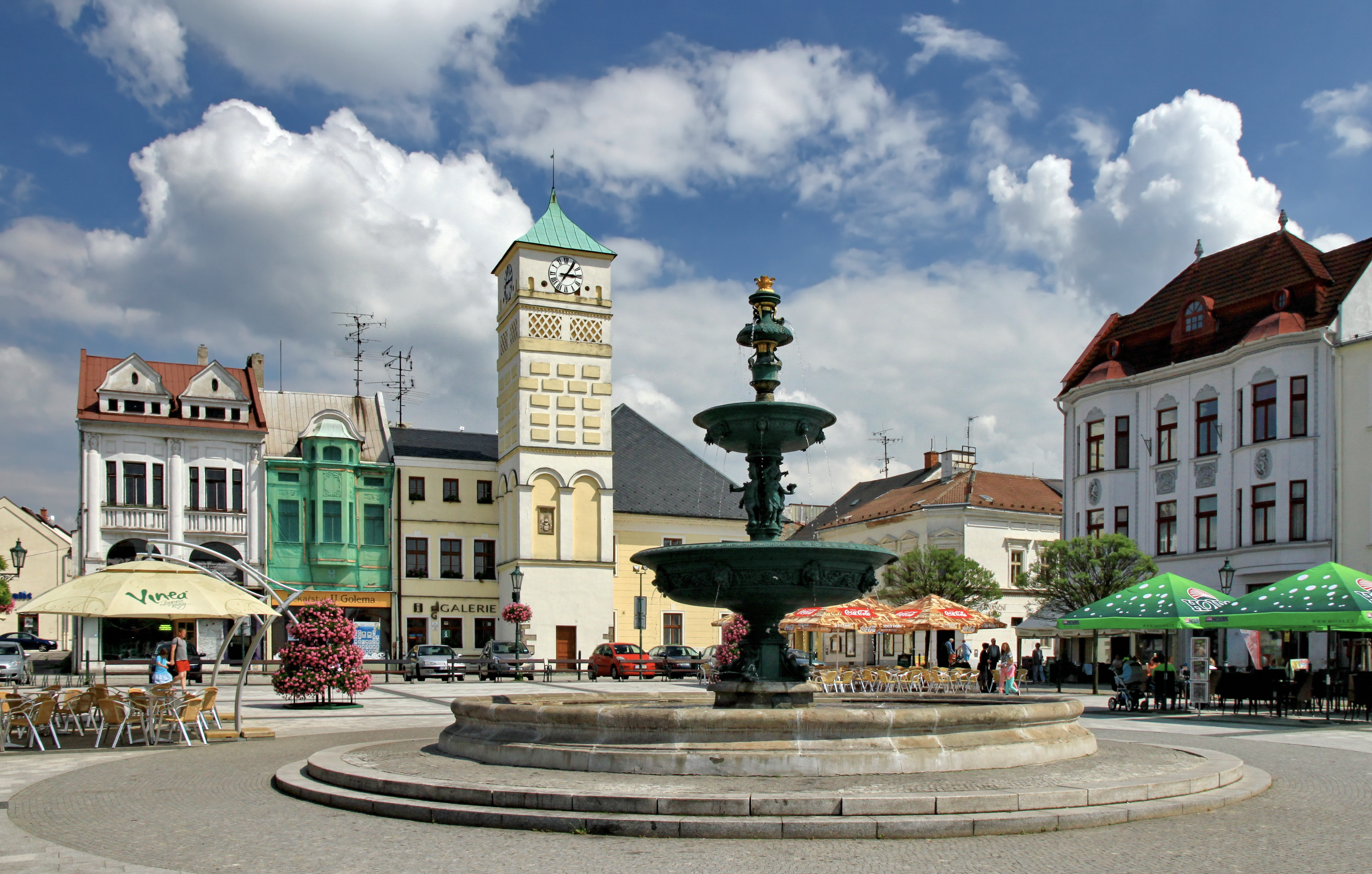 Cast iron fountain, Masarykovo náměstí, Fryštát, Karviná. Moravian-Silesian Region, Czech Republic.